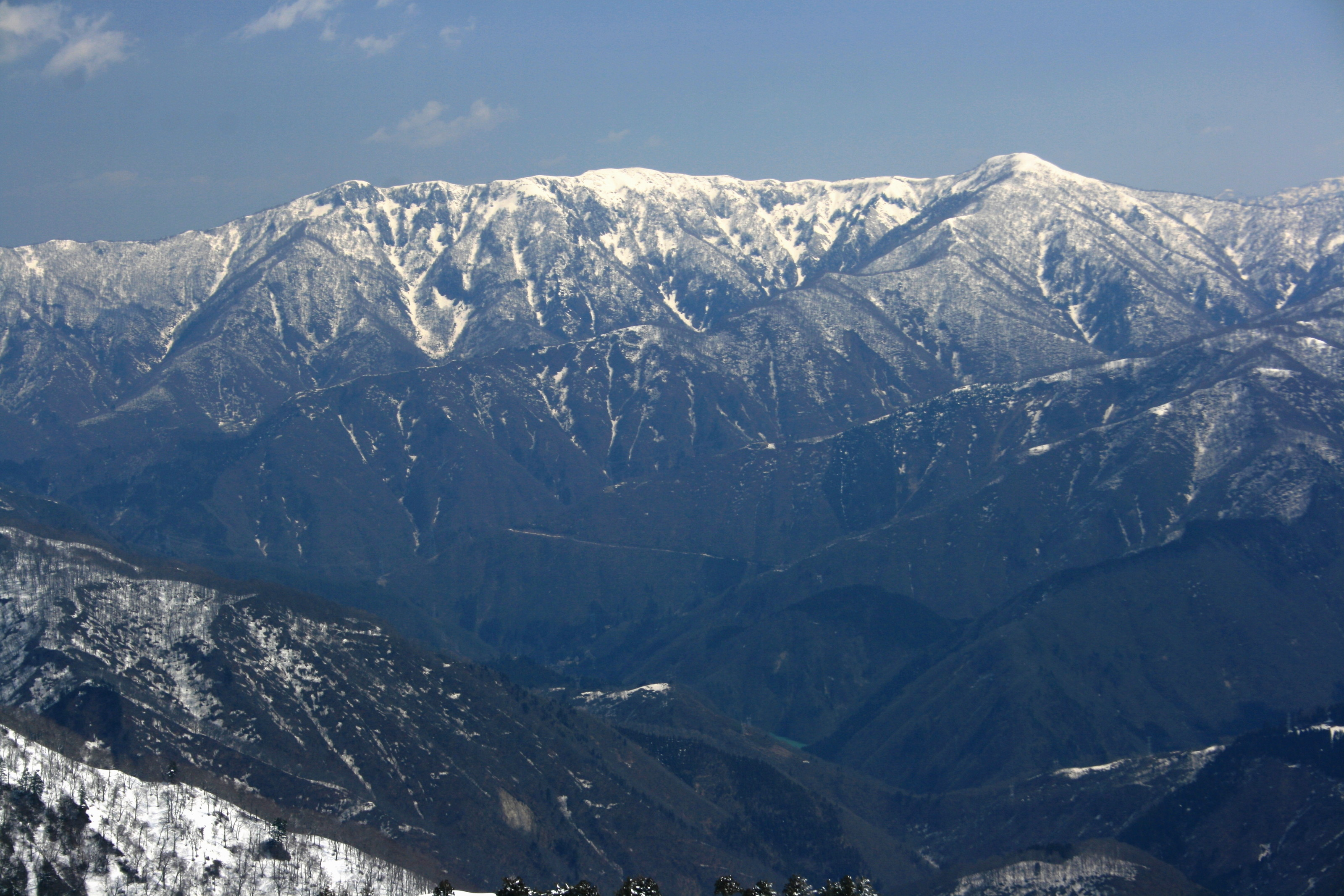 Mount Ningyo and Mount Mitsugatsuji seen from Mount Sanpoiwa, in Gifu prefecture, Japan.